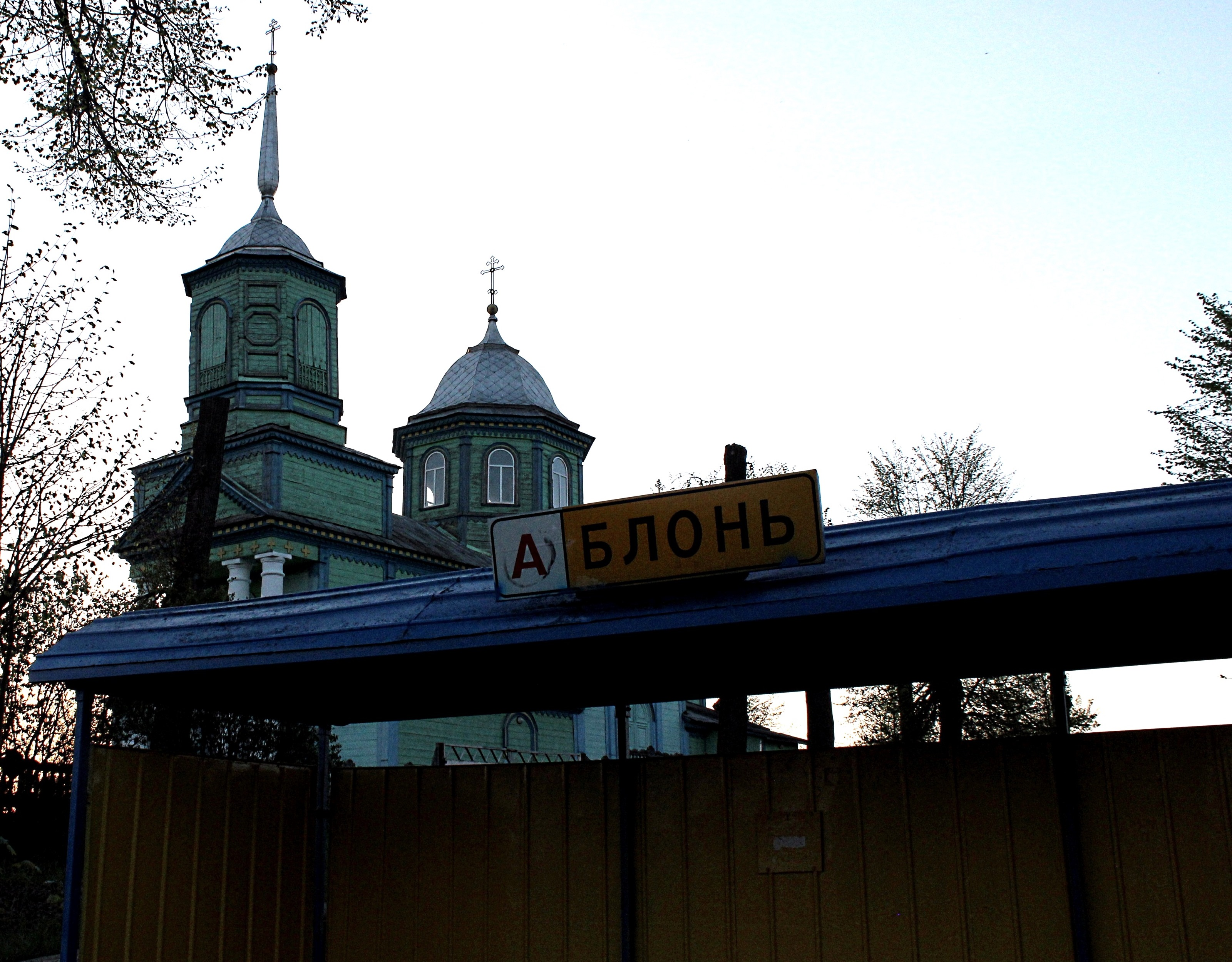 Błoń village, Pukhavichy district, station of autobus near Orthodox church of the Holy Trinity